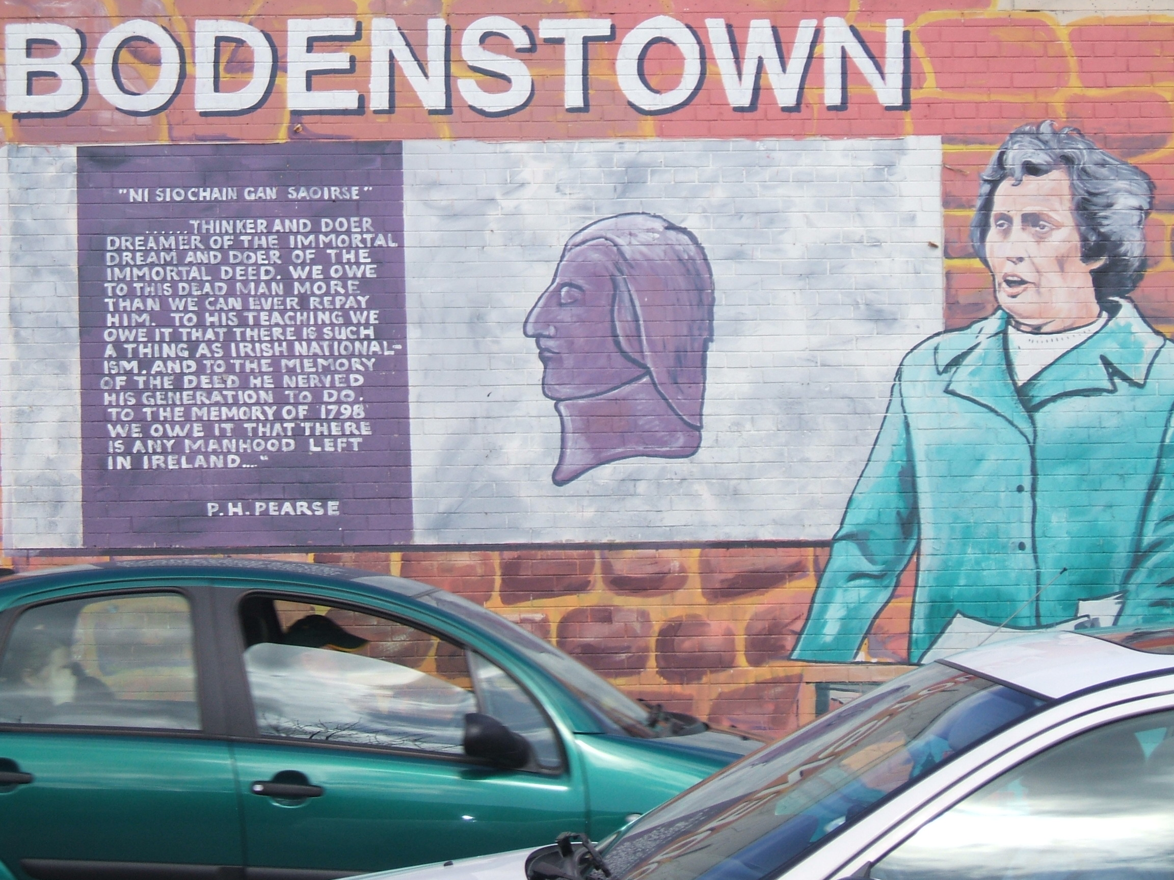 A picture I took on 14th April, 2006 in West Belfast of a mural depicting Máire Drumm at Bodenstown churchyard-an integral part of the Republican calendar. See also File:Grave of Wolfe Tone.jpg.